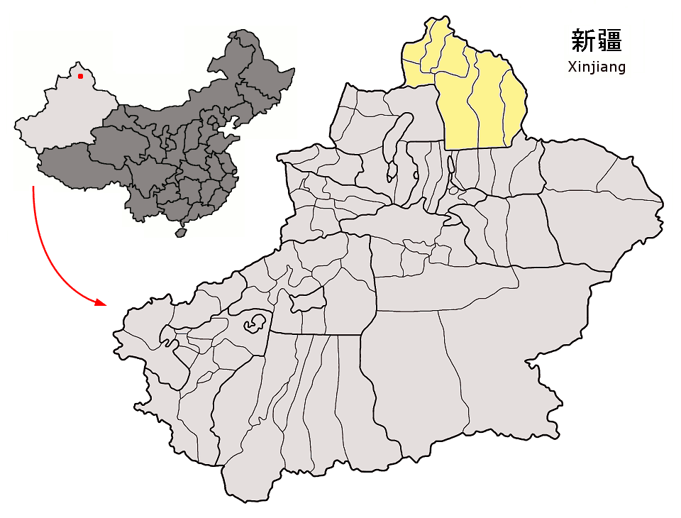 Location of Altay Prefecture (yellow) within Xinjiang autonomous region of China Map drawn in september 2007 using various sources, mainly : Xinjiang Uygur autonomous region administrative regions GIS data: 1:1M, County level, 1990 Xinjiang Counties map from